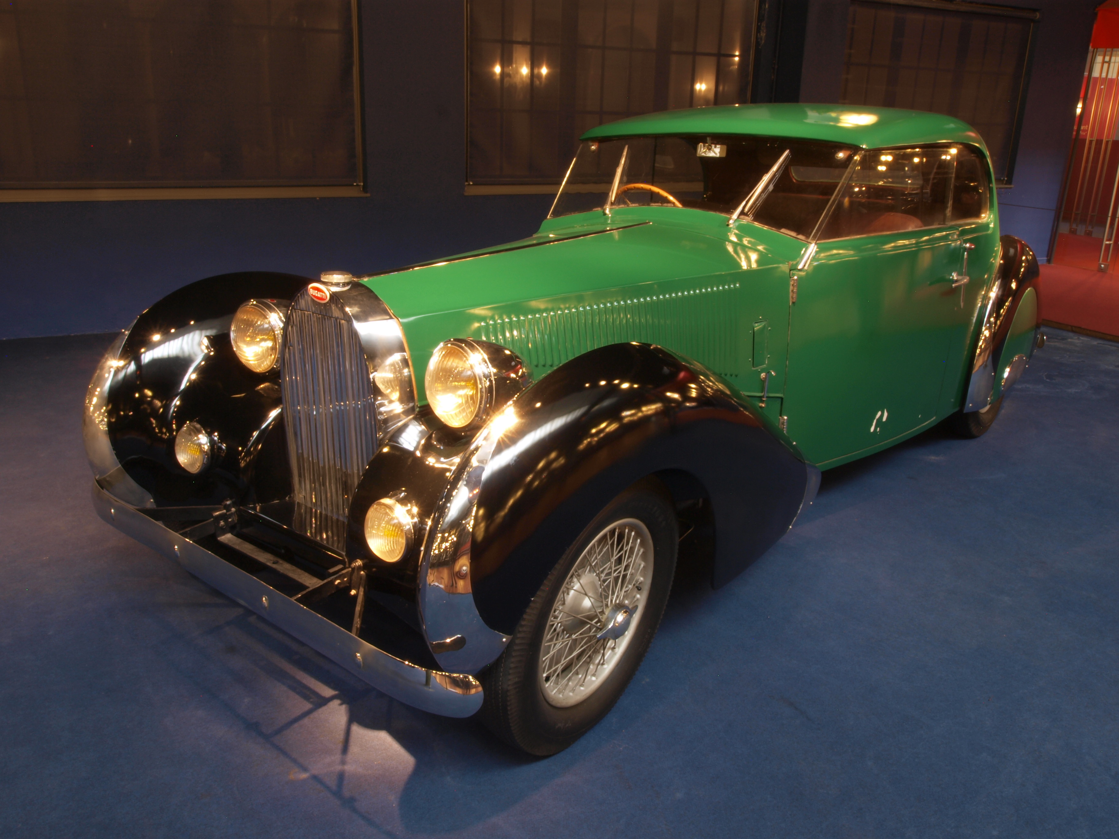 Bugatti Type 57 or 57 C Coach. This is a 1st series car, probably by Labourdette, featuring their patented "Vutotal" windscreen. Photographed at the Cité de l’Automobile, France. OLYMPUS DIGITAL CAMERA